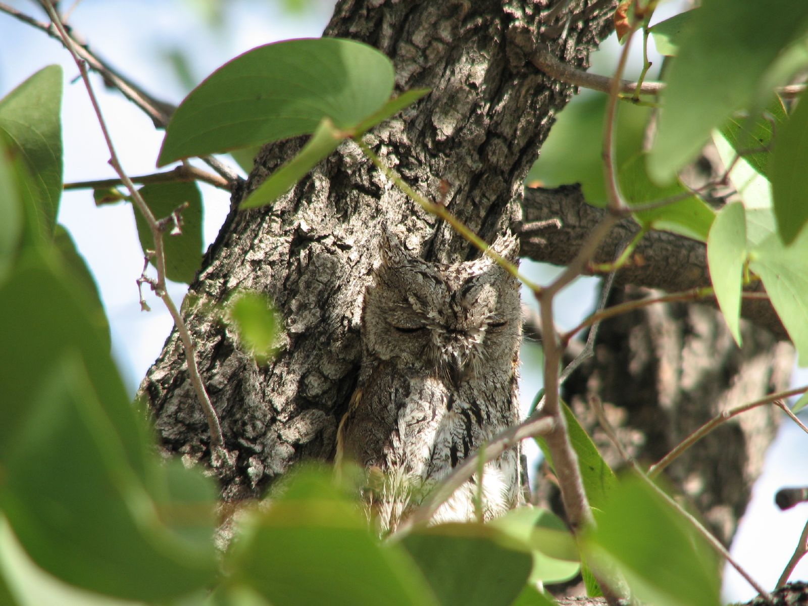 African Scops Owl Otus senegalensis, Halali Camp, Etosha National Park, Namibia